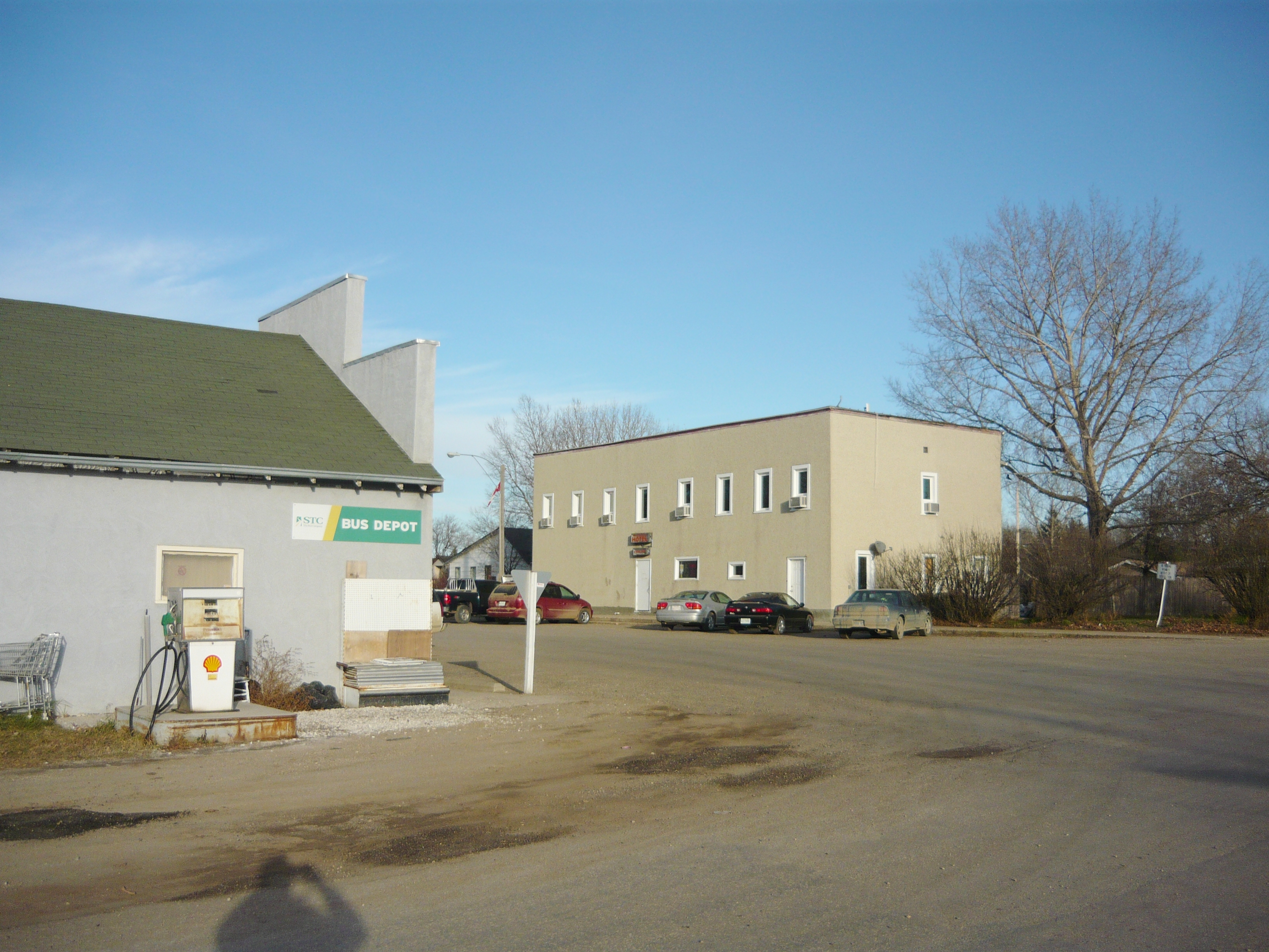 Business district of Bradwell, Saskatchewan, Canada. Photo shows the intersection of First Avenue and Struan Street. The two-story building is the Bradwell Hotel.